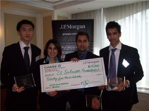 The winning team of the JP Morgan Good Venture Competition 2009: Adam Yang, Feroza Kassam, Raz Jabary, Mohammad Mahbub (l-r)